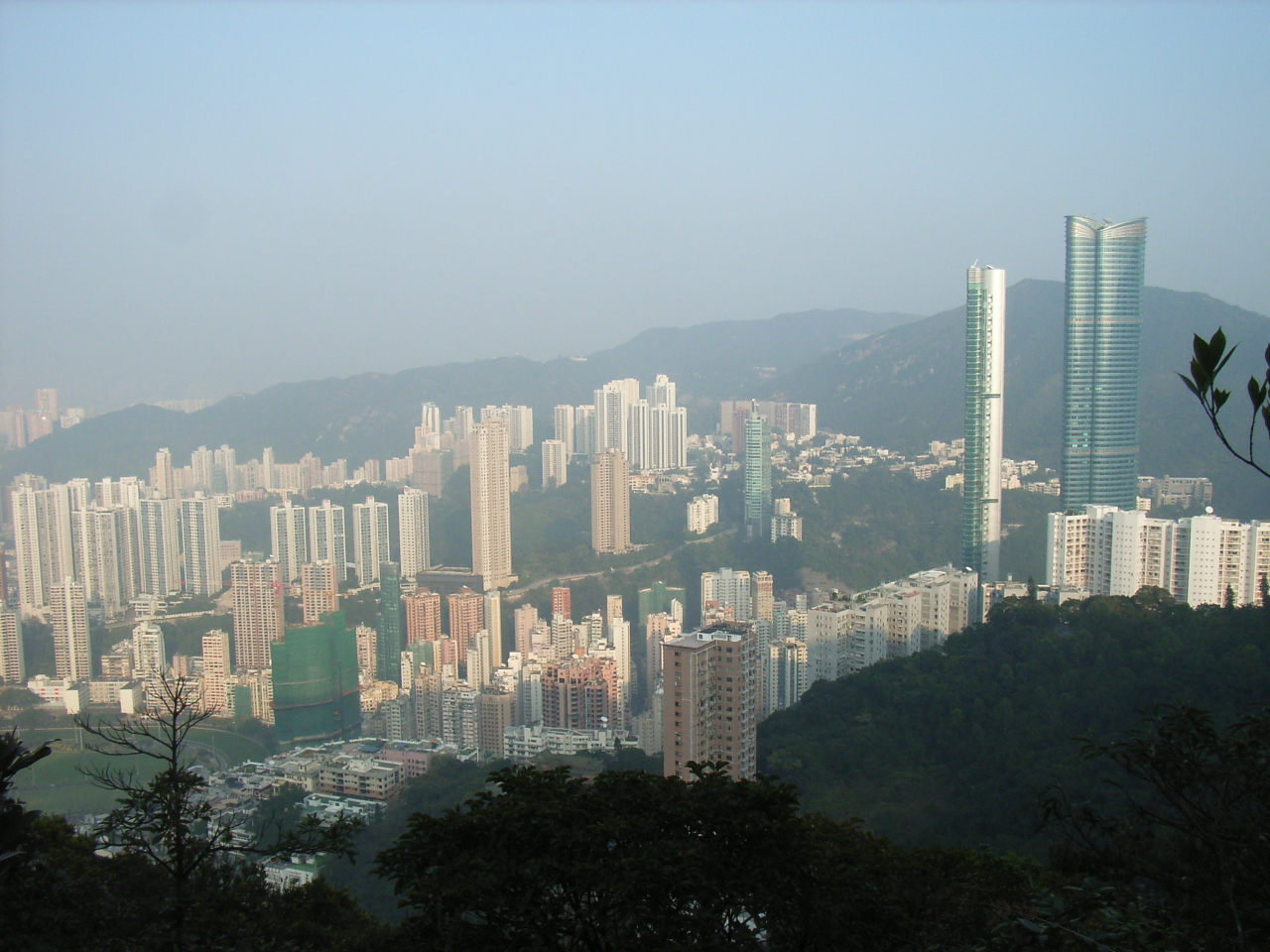 曉廬（Highcliff），位於zh:香港島東北部的zh:司徒拔道41號D，樓高73層，252米，是zh:香港摩天大樓之一。現樓共有百多伙。曉廬的發展商是zh:許世勳家族的zh:中建企業集團。 In this photo, the 2 tallest buildings are named 曉廬 (Highcliff) & 御峰 (The Summit). Highcliff is a 252.4 metre (828 foot) tall skyscraper located in Stubbs Road, Happy Valley, Hong Kong, China. Photographer and author is ParkerStarS.